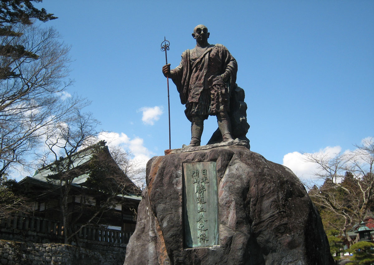 Japan: Shōdō Shōnin statue near Rinnō temple in Nikkō (Tochigi prefecture).